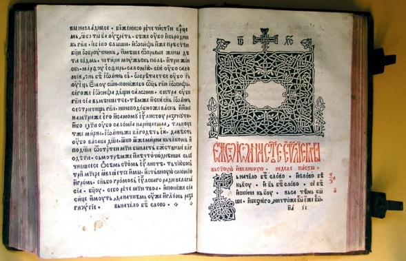 The Belgrade Four Gospels (Tetraevangelion)